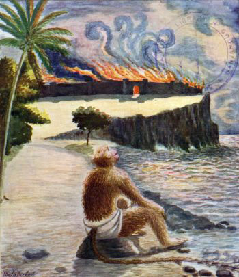 Rawana's men tied the tail of Hanuman with clothes, poured oil on it and lit it. The monkey with the burning tail then was taken in a procession to humiliate him. Upon his escape, he jumped from house to house and all wooden structures started catching fire from his tail. The whole island of Lanka started burning in no time. Hanuman, after ensuring that imprisoned Sita was safe, proceeded to sea-shore and extinguished the fire of his tail. He leisurely and gleefully watched the burning of Lanka. Hanuman then crossed the sea and joined back his eagerly waiting clan. He reported the matter and all of them heaved sigh of relief, after learning the whereabouts of Sita. All proceeded to Rishyamooka mountain where Rama was putting up. Hanuman presented the jewel of Sita to Rama. He recognized it at once, and hugged Hanuman. Sugreeva organized his monkey army and all proceeded to southern sea with Rama and Laxman